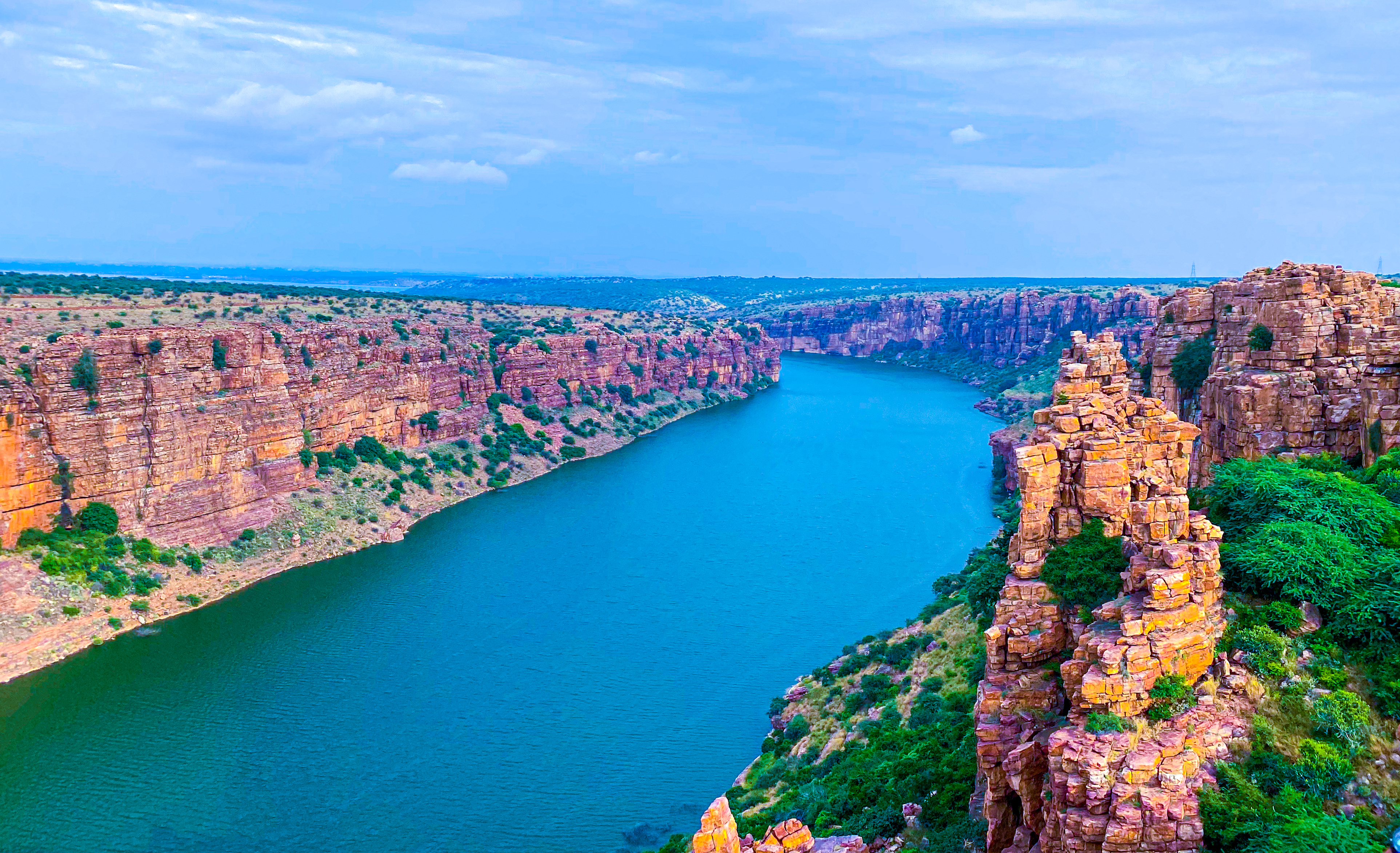 Grand Canon of India (Gandikota)